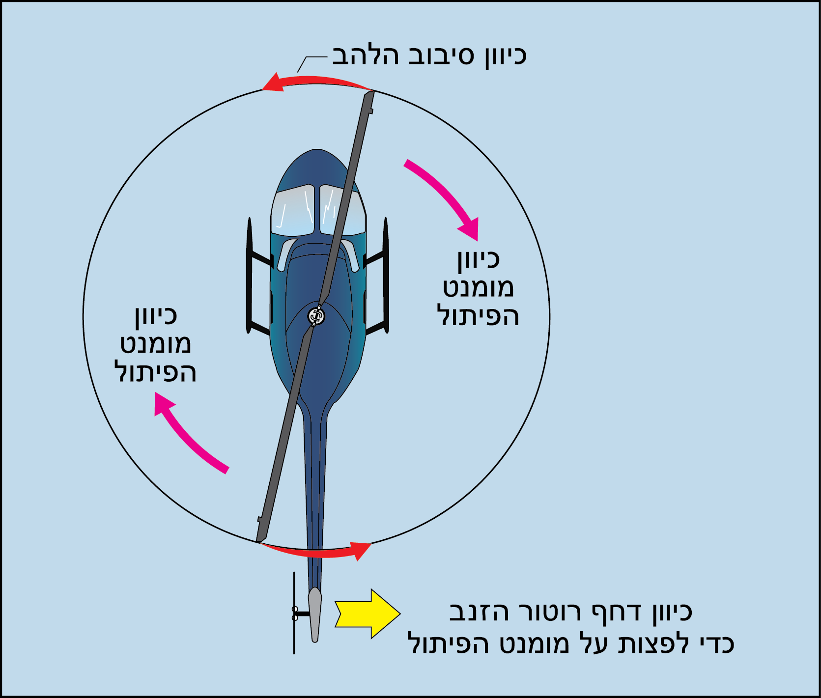 Description of helicopter torque effect.